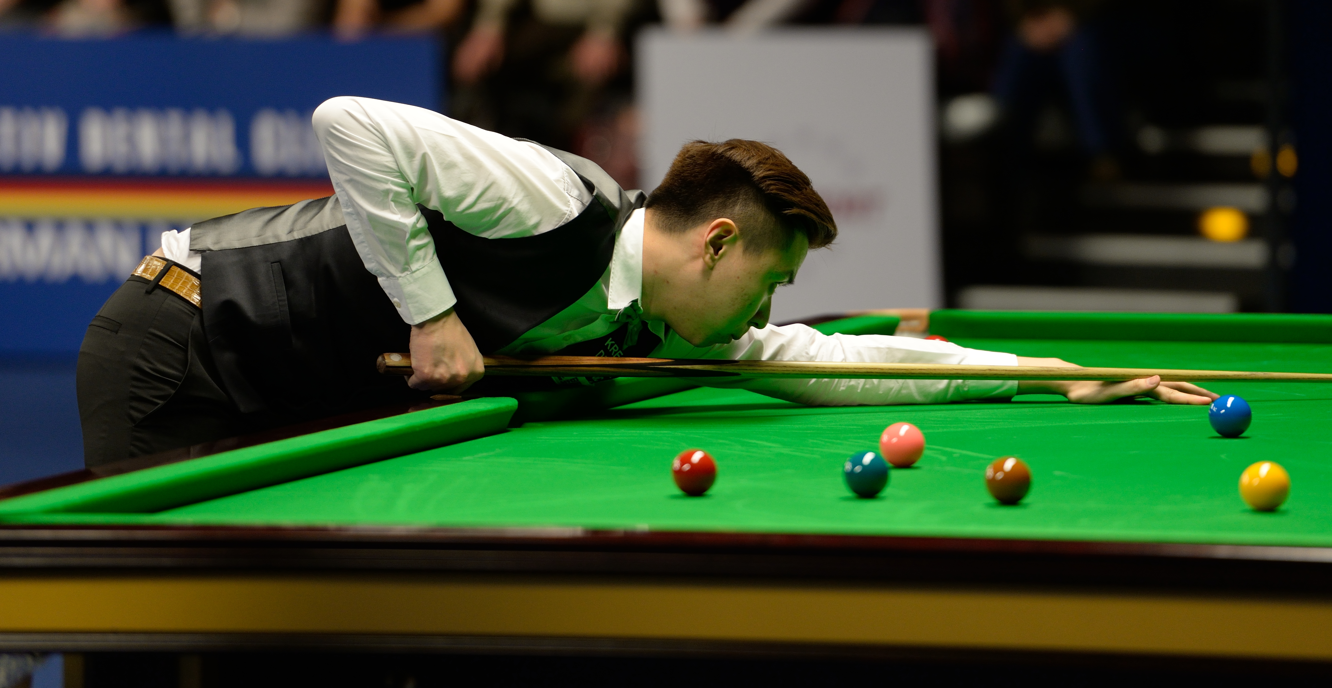 Picture taken in Berlin during the Snooker German Masters in 2015. Xiao Guodong.